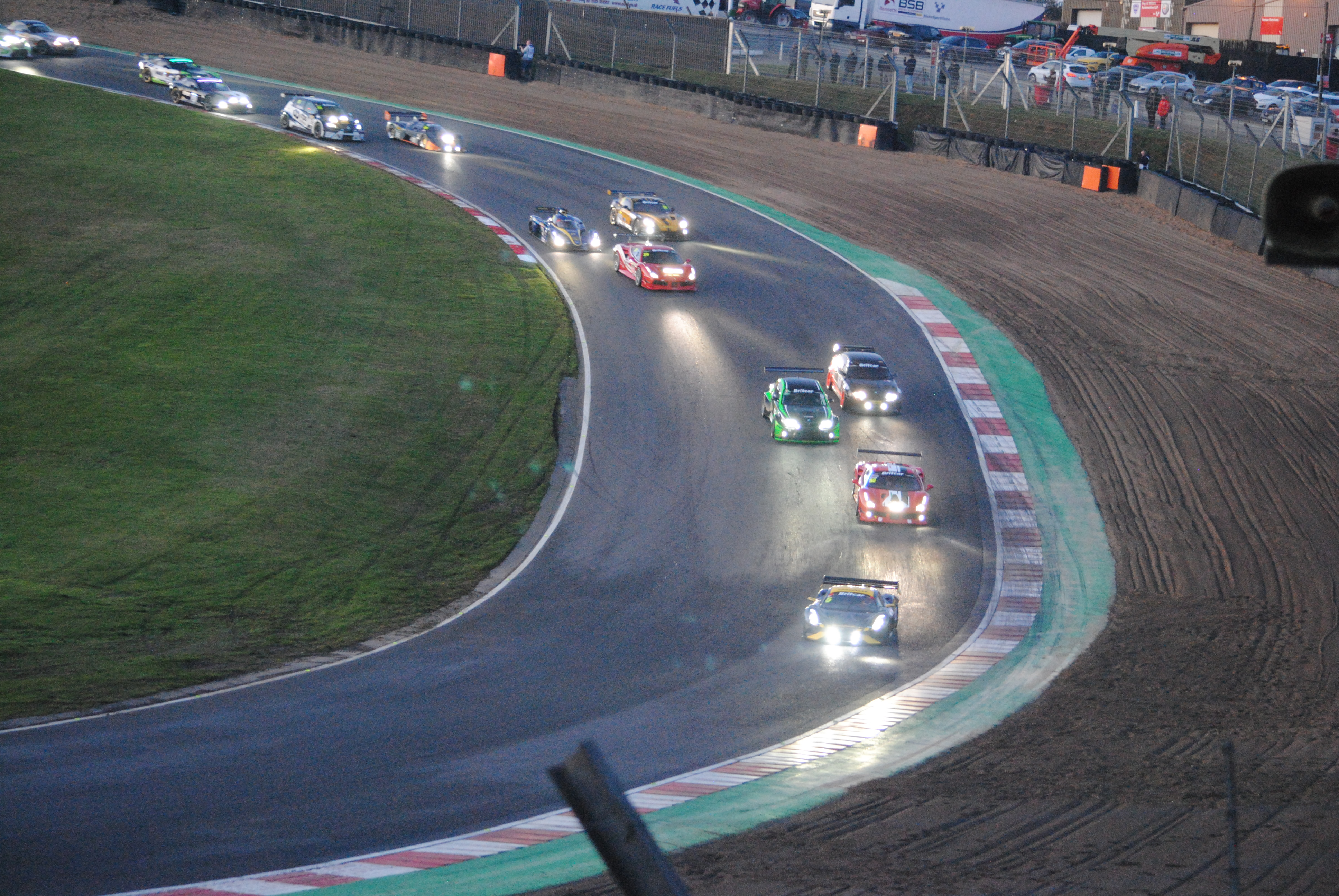 The start of the final race of the 2019 Britcar Endurance Championship, led by the Brabham BT62 in its second ever race.